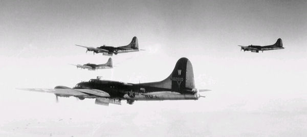 B-17Gs of the 398th Bomb Group from Nuthampstead Airfield England over a target.